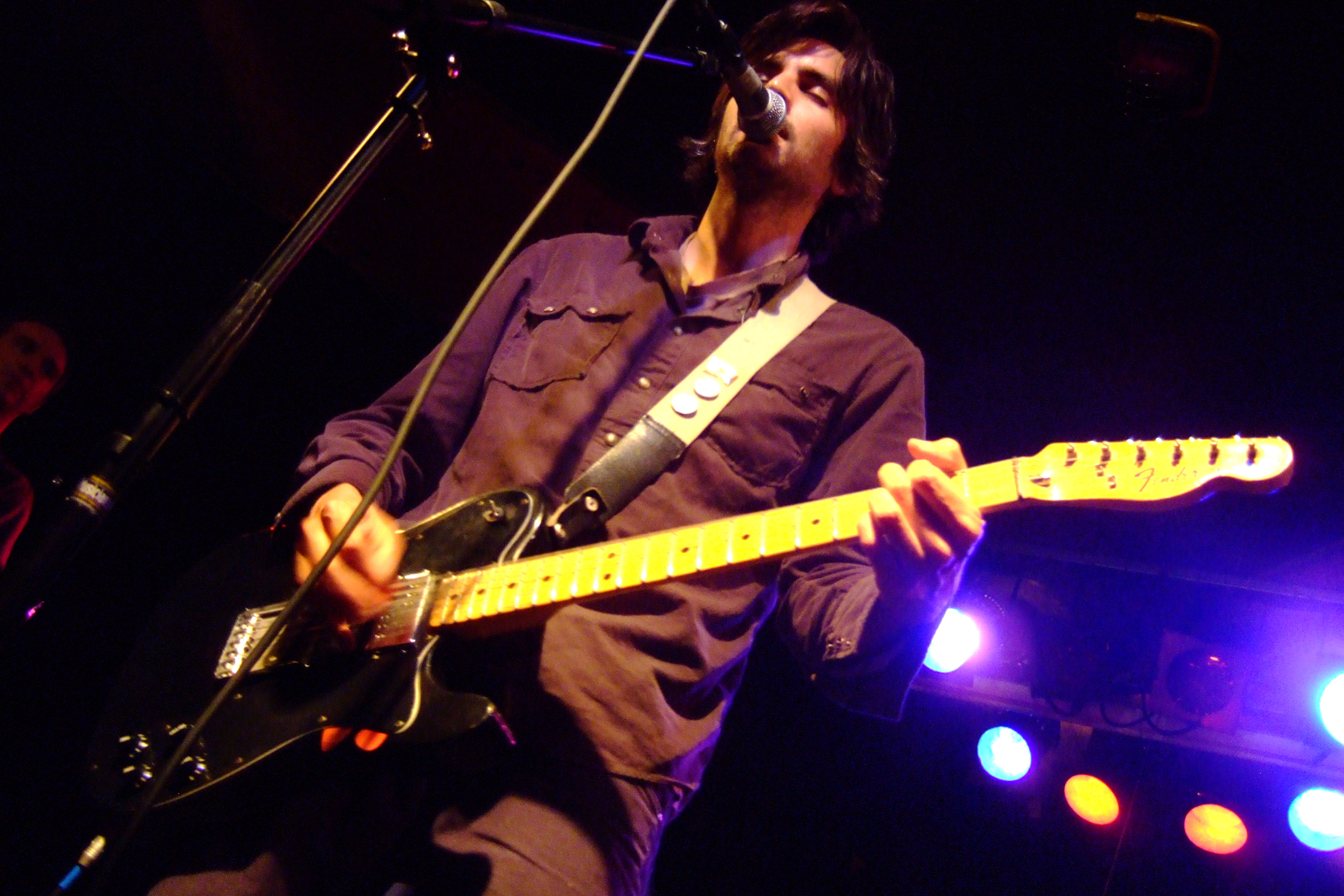 Matt Kadane of The New Year. He has had that Joy Division button on his guitar strap since the first time I saw Bedhead in 1994.